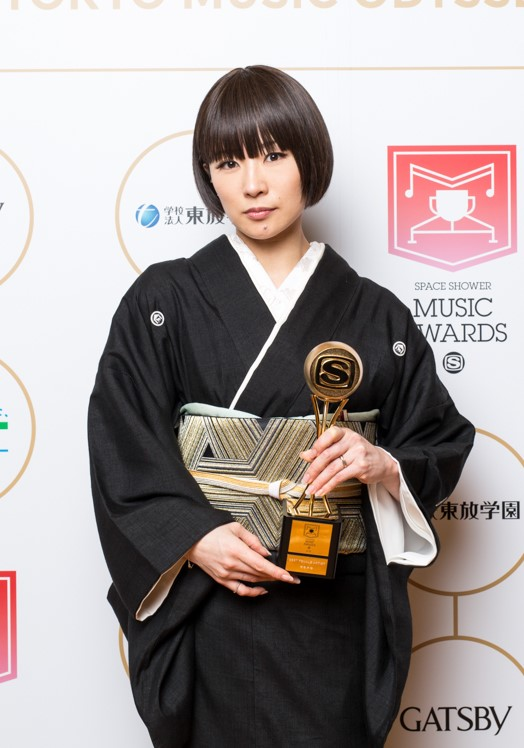 A picture of pop-rock singer Ringo Sheena in 2016 at the Space Shower Music Video Awards in Japan.